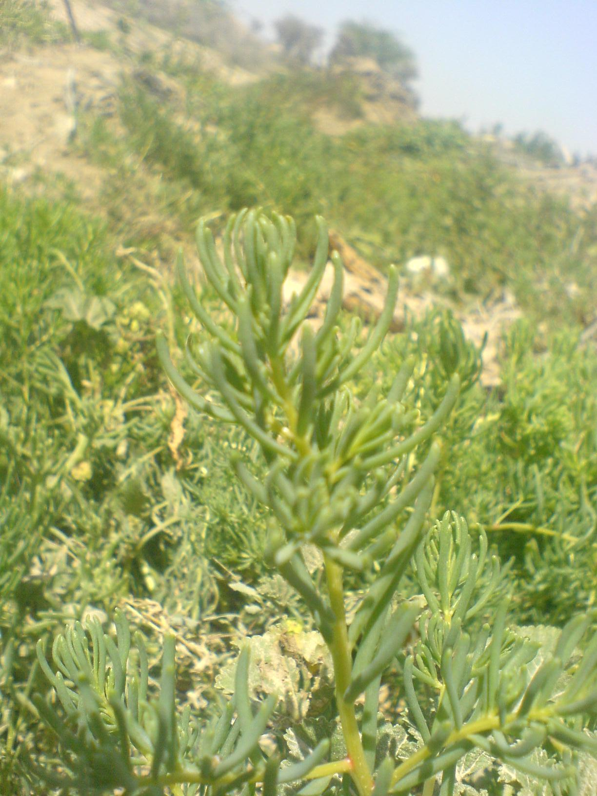 Suaeda aegyptiaca